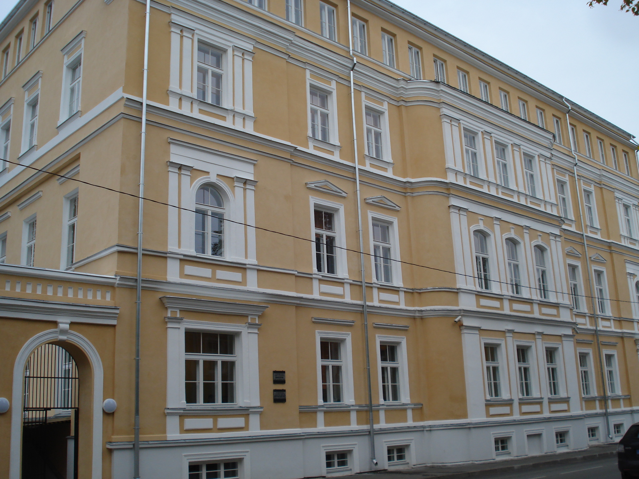 The historic building at Vanemuise 35 in which the Tartu peace treaty between Estonia and Communist Russia was signed (1920)